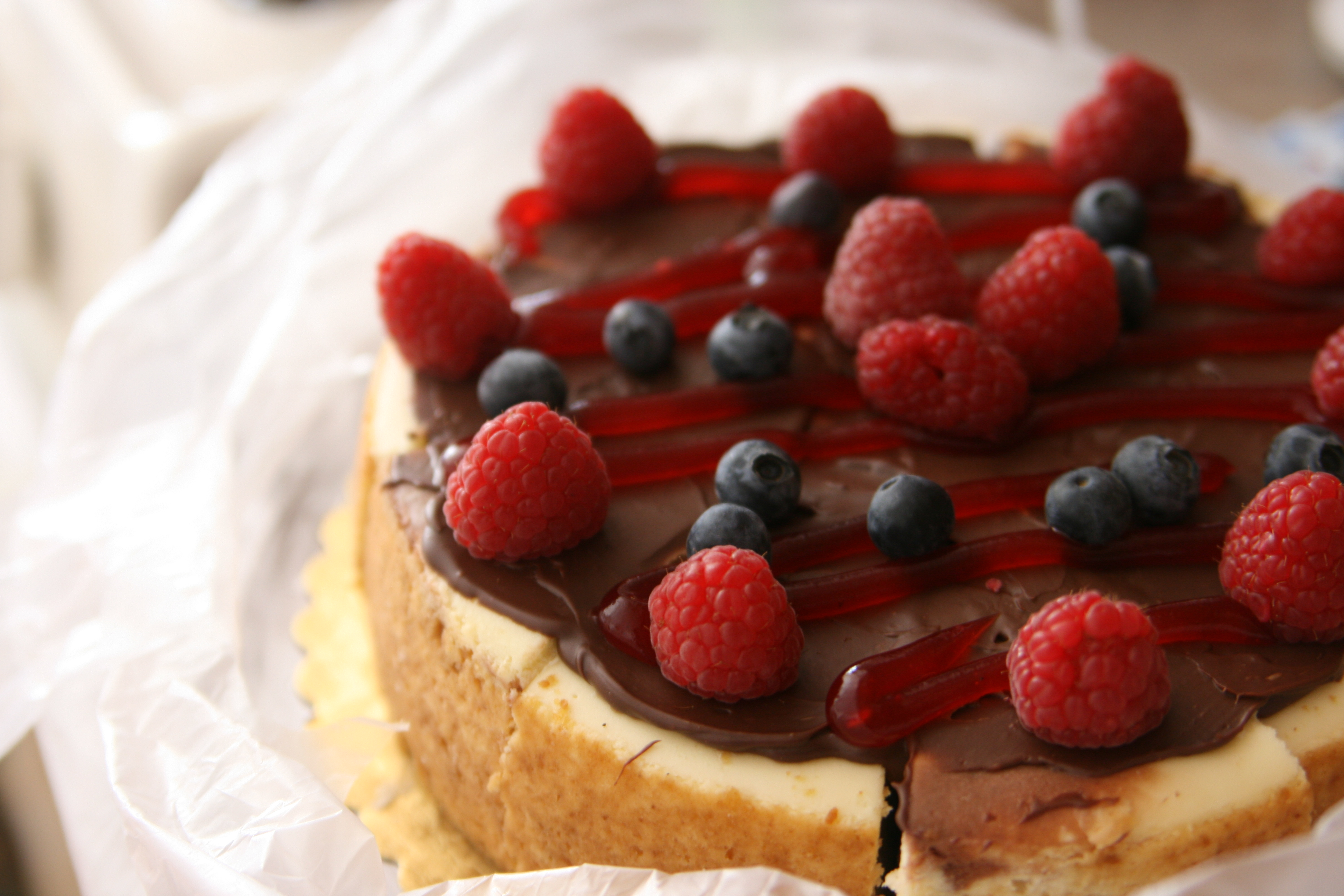 An edible expression of love.